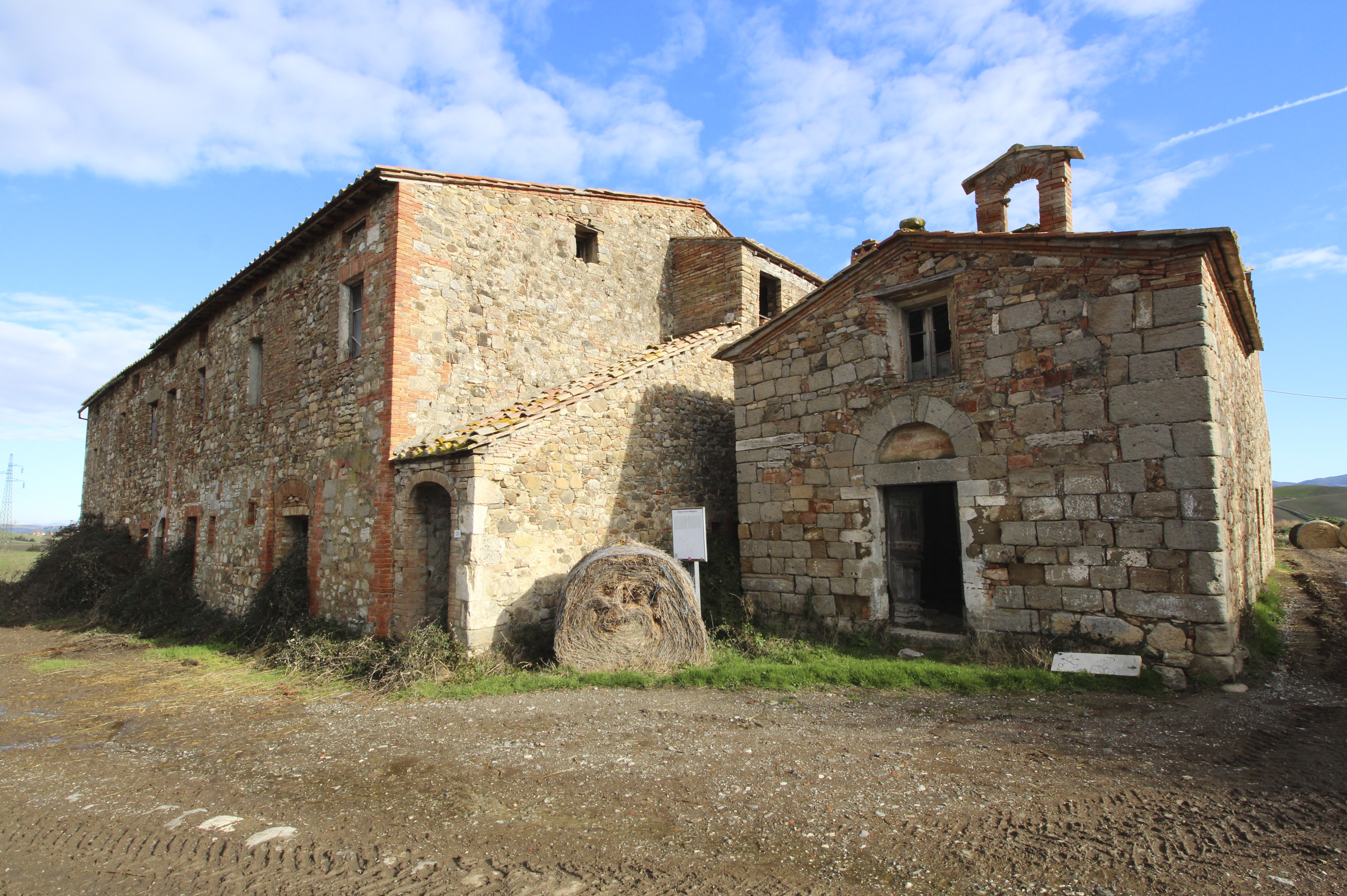 Ancient post station/Hospital Le Briccole (Abricula on Sigeric the Serious Via Francigena, XI) on Via Cassia/Francigena, Gallina, hamlet of Castiglione d'Orcia, Val d'Orcia, Province of Siena, Tuscany, Italy